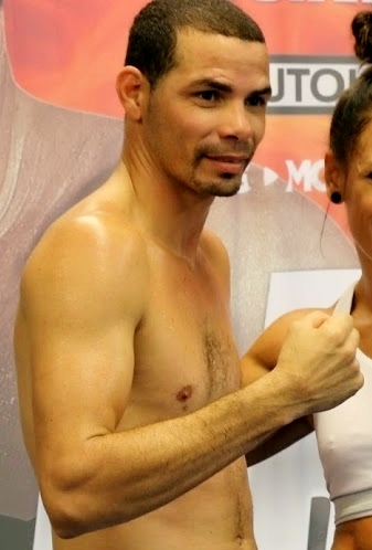 Richar Abril at the public workout in Helsinki.